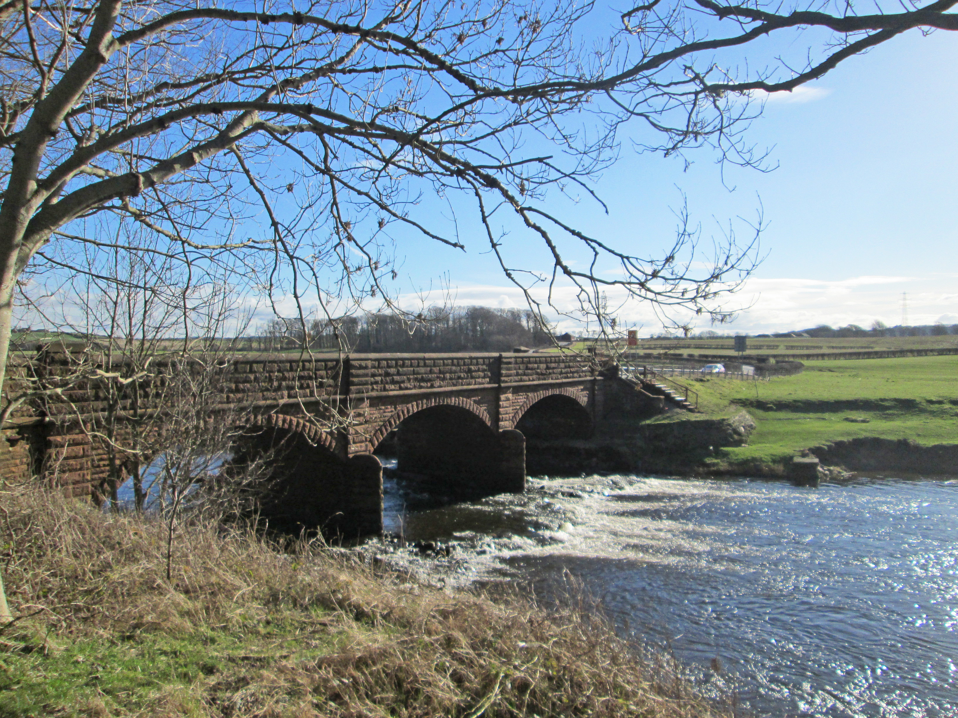 Holmsford Bridge over the River Irvine, on the B730 road south from Dreghorn looking towards Drybridge